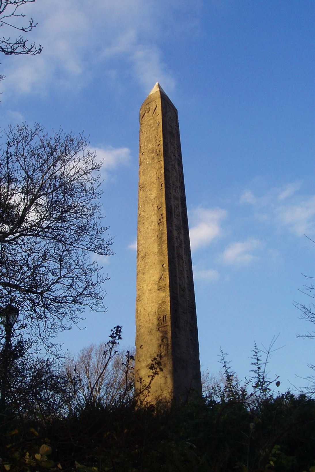 Obelisk (Cleopatra's Needle) in Central Park, New York, NY November 2006